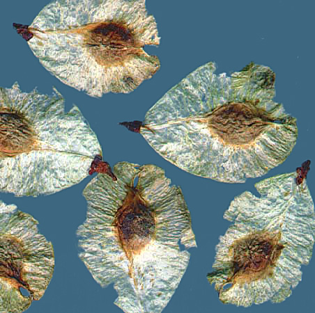 Ulmus 'Sapporo Autumn Gold' fruits